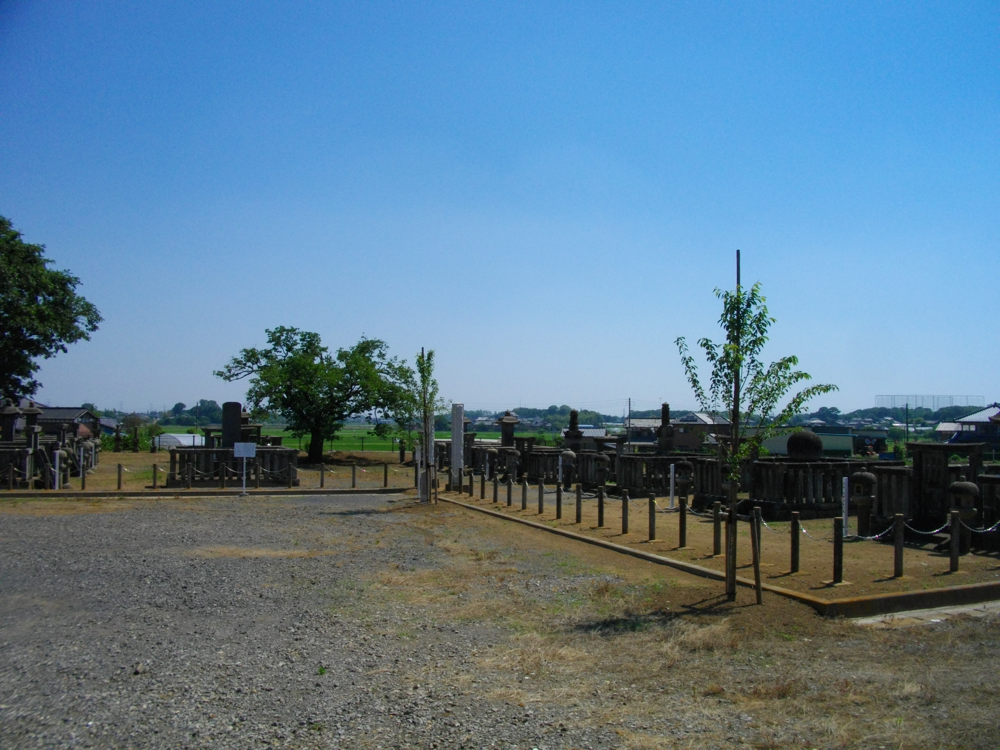 Graves of Yamakawa-Mizuno Family